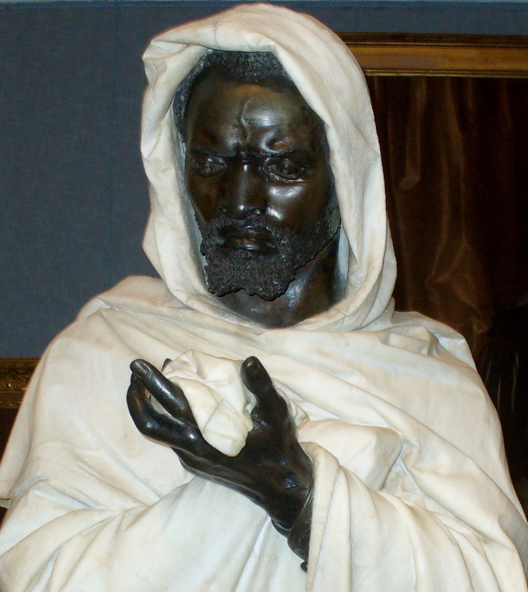 Pietro Calvi 1833 - 1888. In Museum of Fine Arts Cape Town.